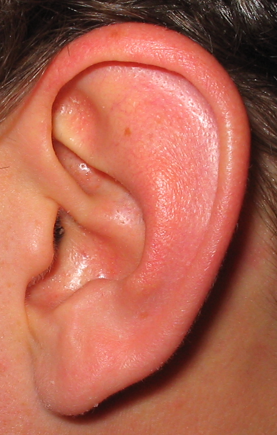 A left human ear.